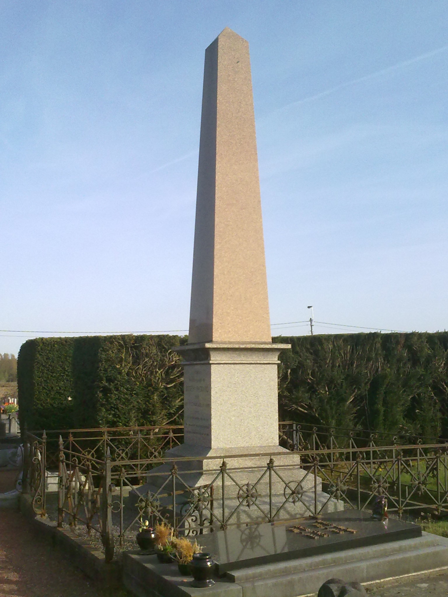 Funerary monument to the memory of two Packard family members in Court Saint Etienne. (Belgium)